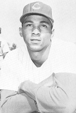 Professional baseball player Billy Williams